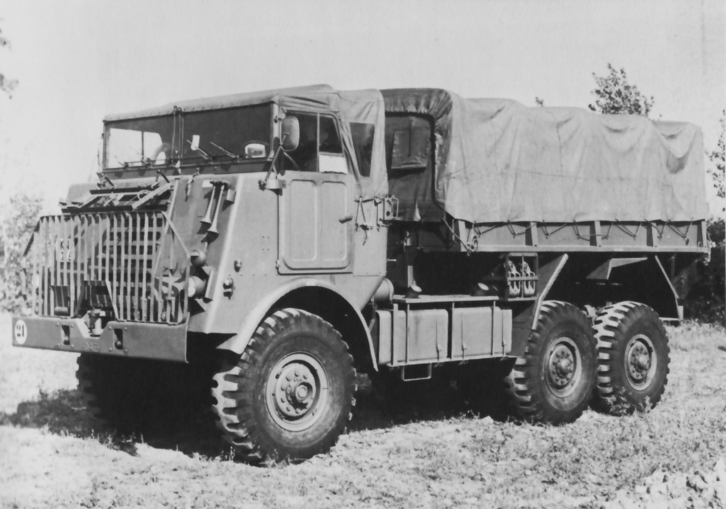 DAF YA 616 6 ton Militairy Truck. Picture taken at Legerplaats Stroe The Netherlands